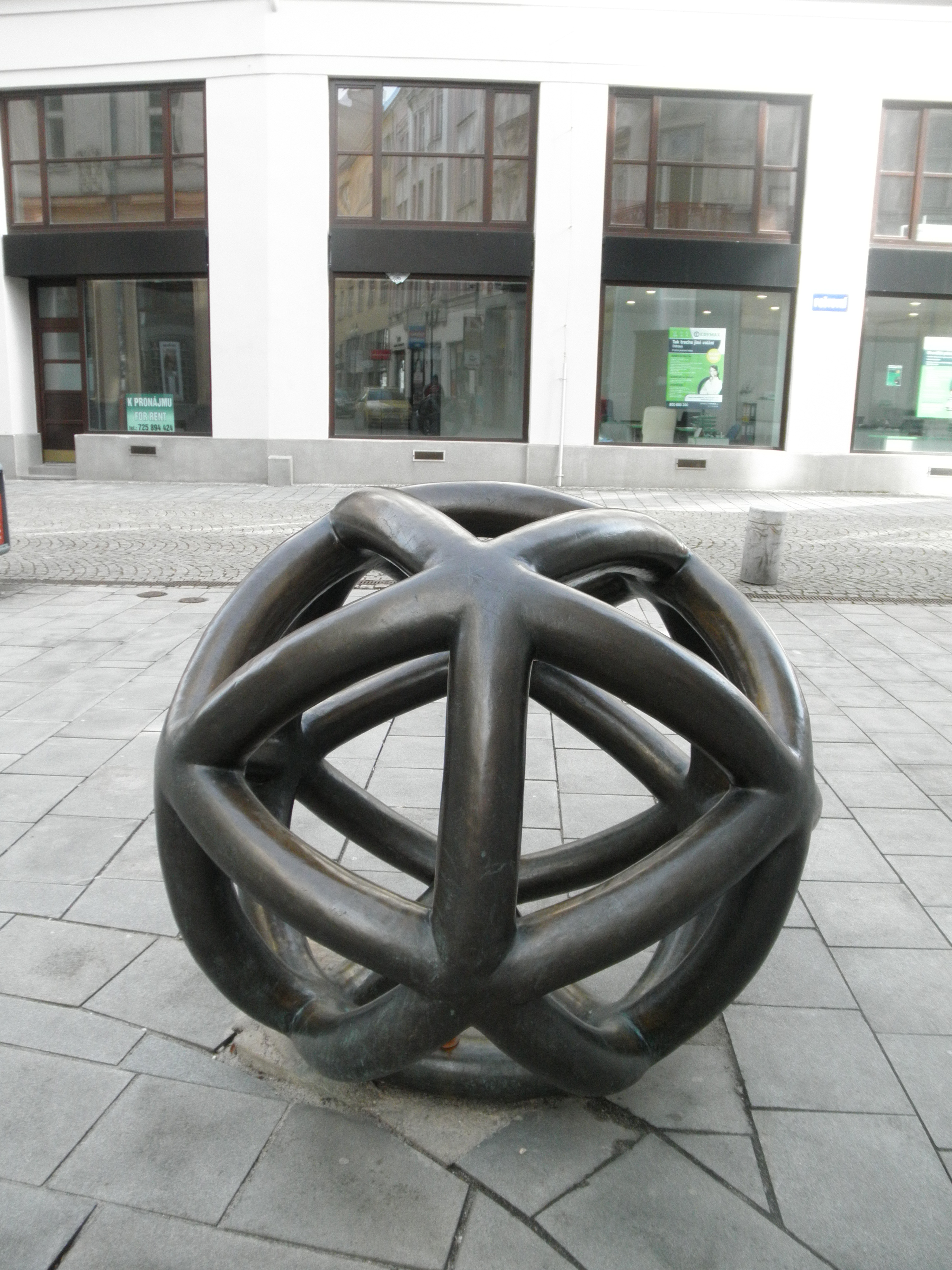 Bronze sculpture "Hvězdice" in Ostrava by Čestmír Suška installed in 2008.